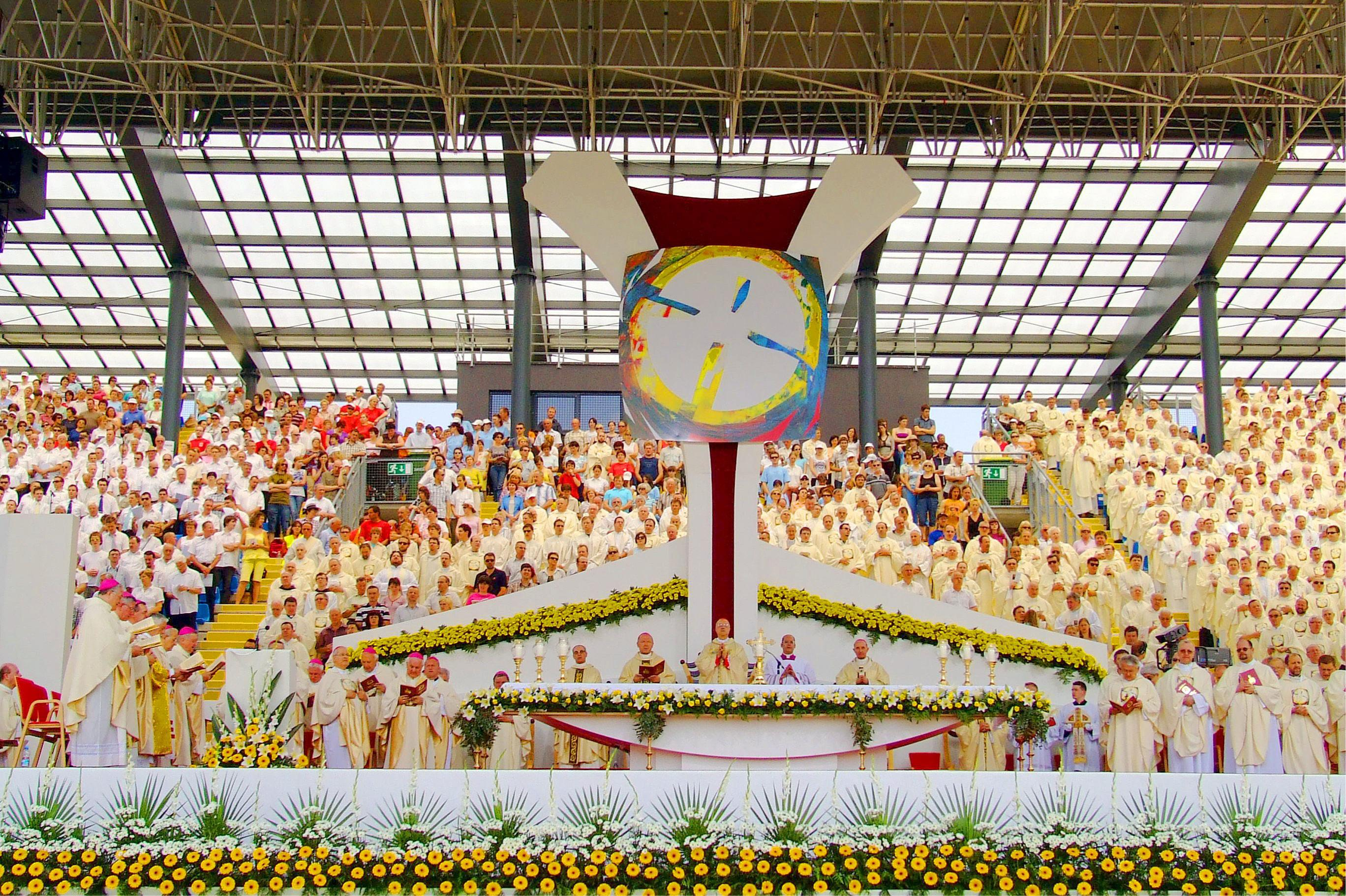 Vid Gajšek's documentary fineart digital photograph shows »Slovenian Eucharistic Congress 2010 on Sunday, 13th June 2010«, a special day of history of Slovene Catholic Church with proclamation of Blessed Aloysius Grozde (became first Slovene martyr for holy faith), happened within Eucharistic celebration in the holy faith in Jesus Christ, present in the Corpus holy body and blood.